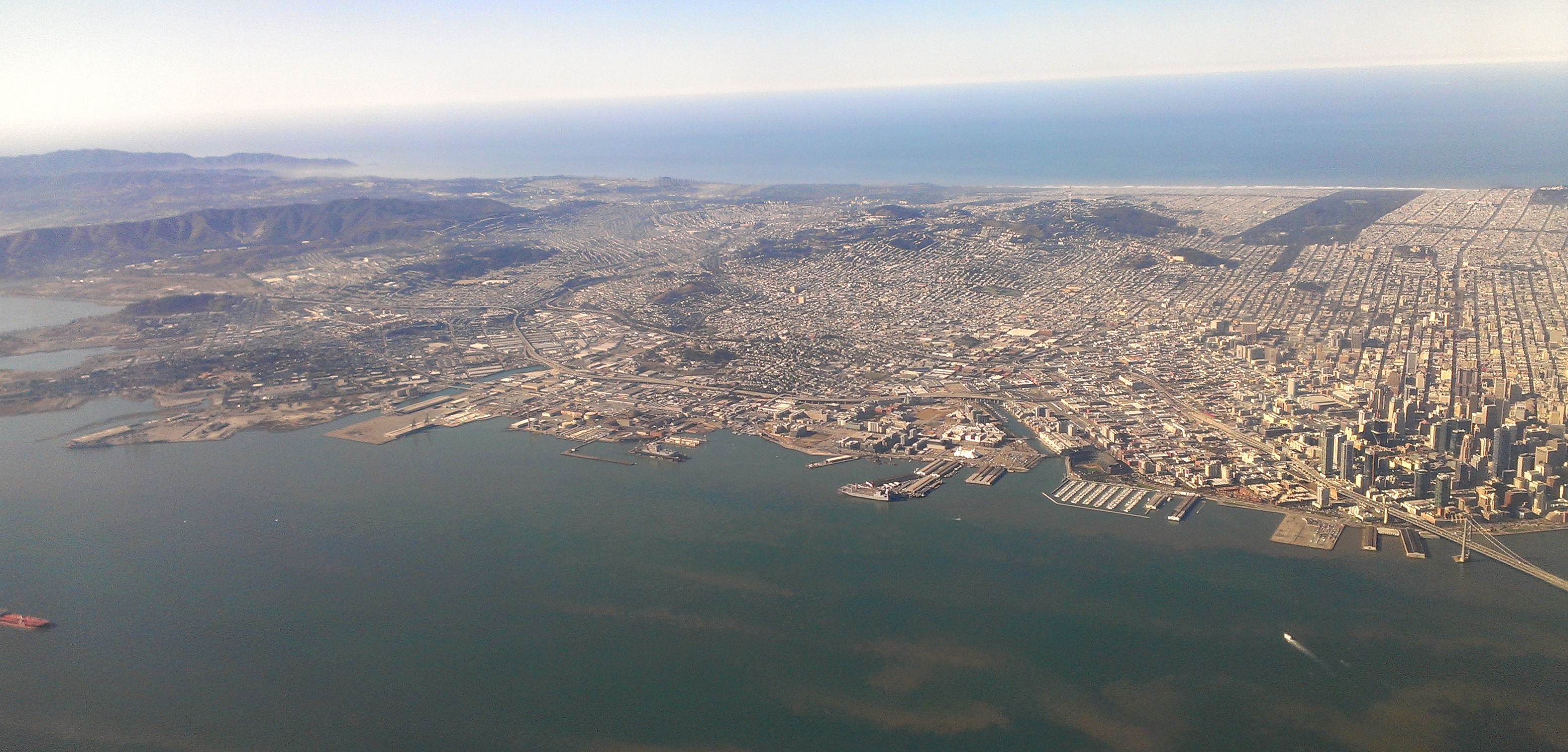 San Francisco eastern neighborhoods, including Mission Bay, SOMA, Potrero Hill